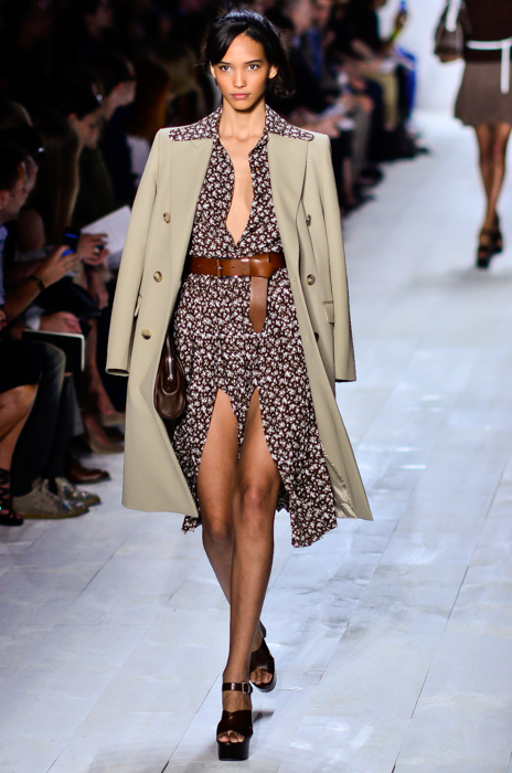 A model walks the runway at the Michael Kors Spring/Summer 2014 show at New York Fashion Week, September 2013.